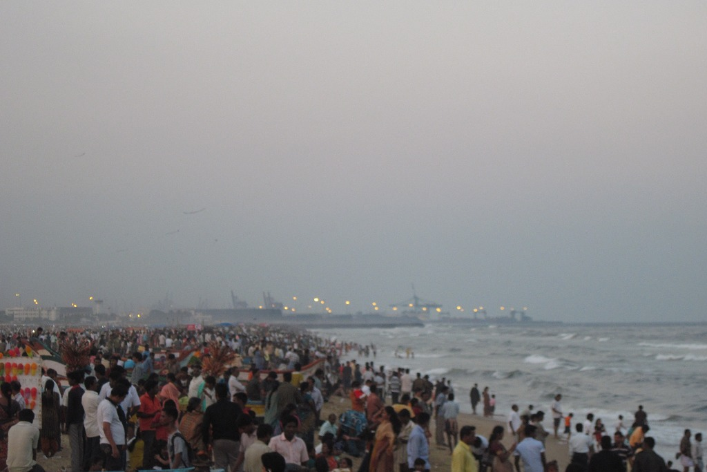 Sunday evening crowd at the Marina Beach, Chennai. Chennai Port can be seen in the background.